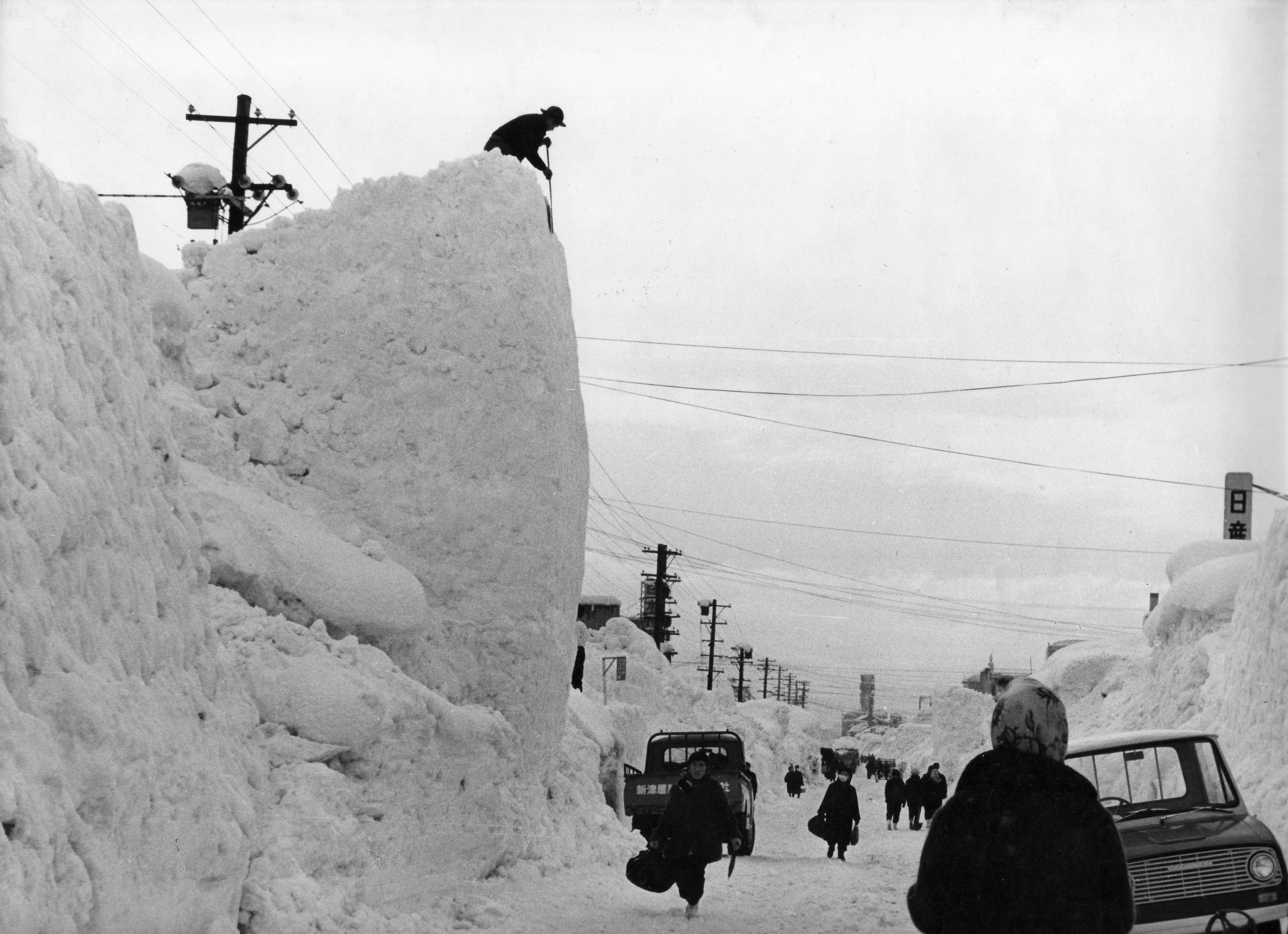 Scene of Nagaoka City at the time of the heavy snowfall of January 1963